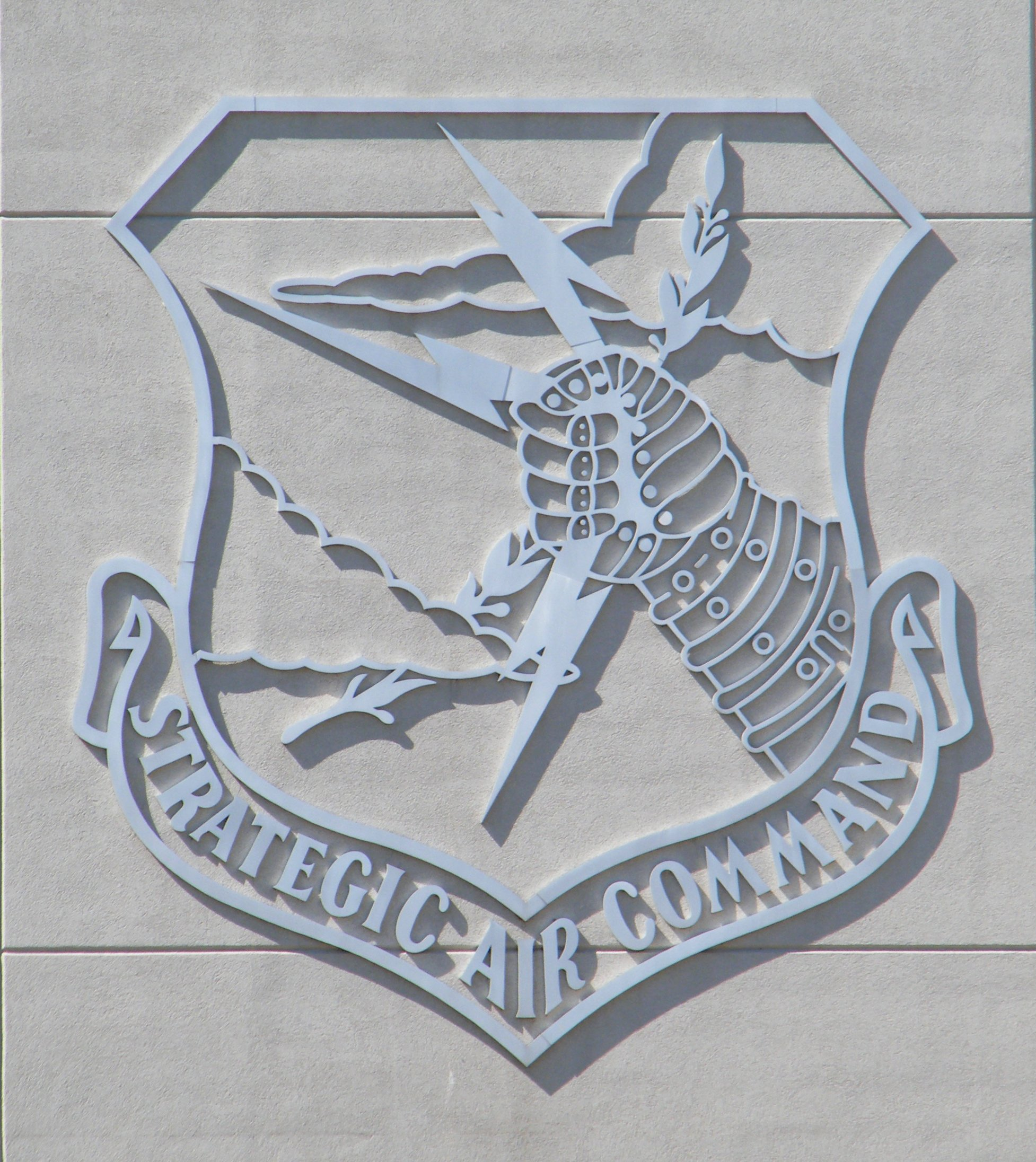 Logo on the outer wall of the Strategic Air and Space Museum in Nebraska